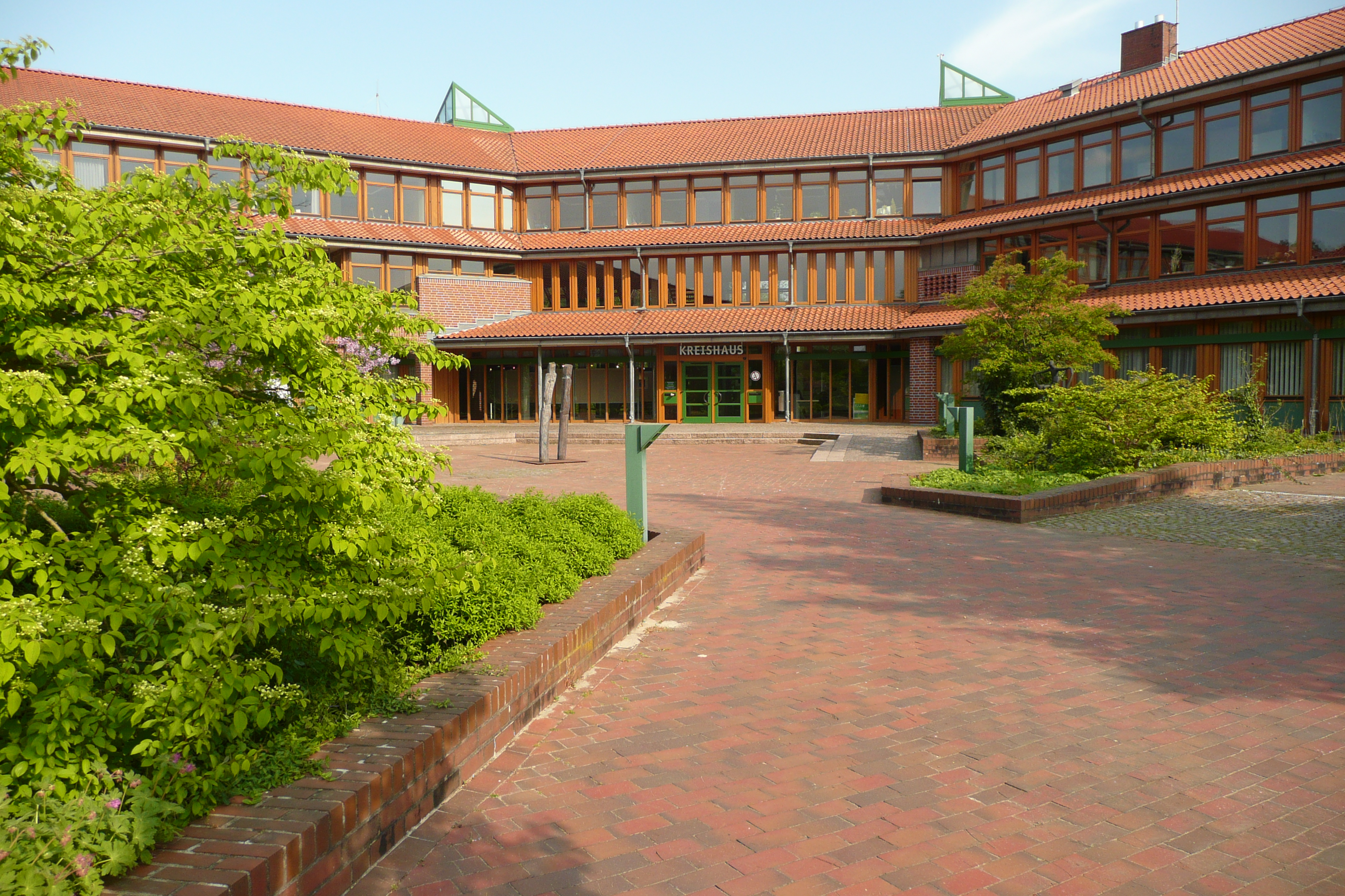 Administration building of the district of Oldenburg in Wildeshausen